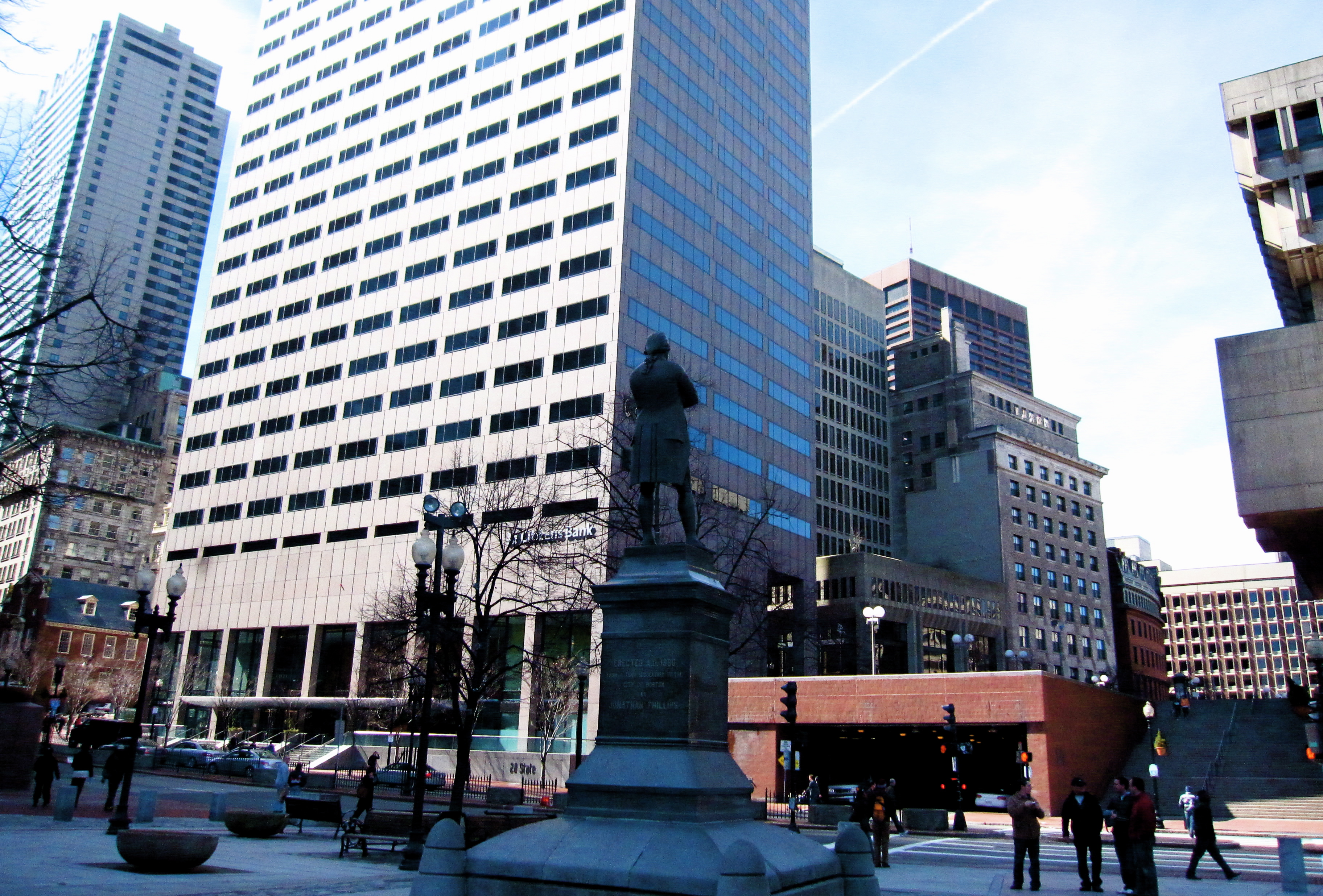 Boston, Massachusetts, March 2010